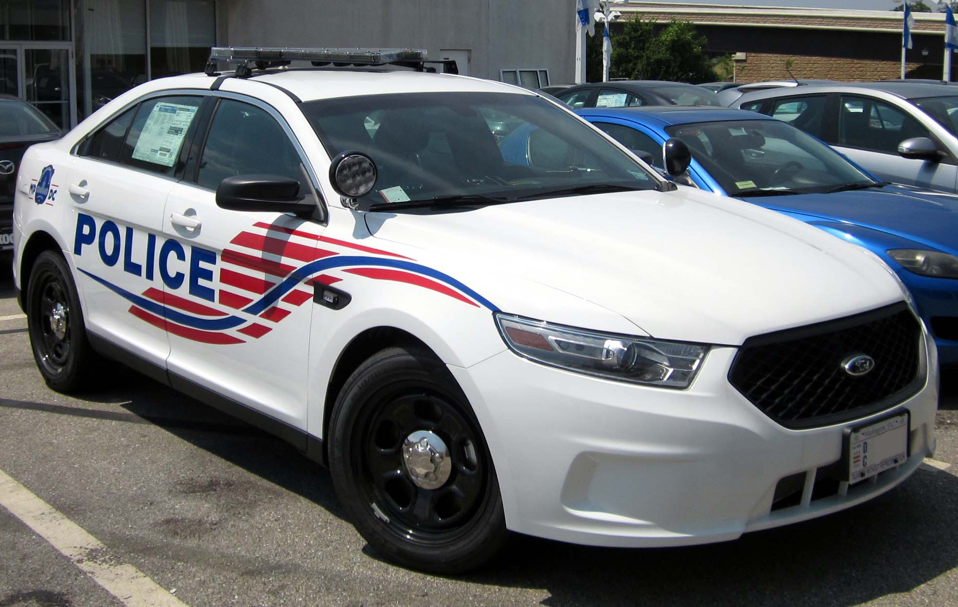 2013 Ford Police Interceptor sedan of the Washington D.C. Metropolitan Police Department photographed in Silver Spring, Maryland, USA.